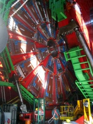 Construction of one detector (called CMS ) of the new LHC at CERN